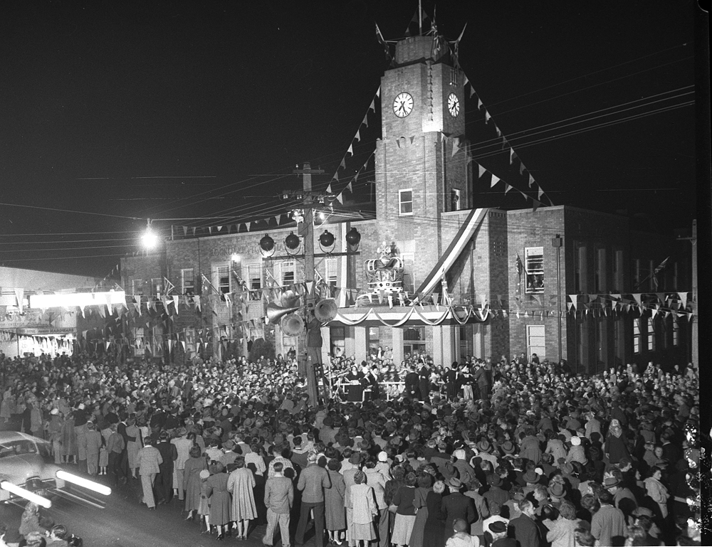 Format: Negative Find more detailed information about this photographic collection: .au/item/itemDetailPaged.aspx?itemID=139424 From the collection of the State Library of New South Wales